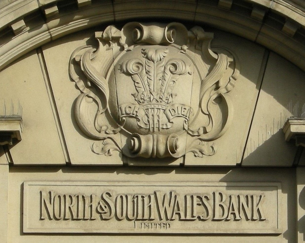 Architectural decoration featuring the Prince of Wales's feathers on the tympanum of the former North & South Wales Bank (now HSBC), Ruabon, Wrexham (historically Denbighshire), Wales